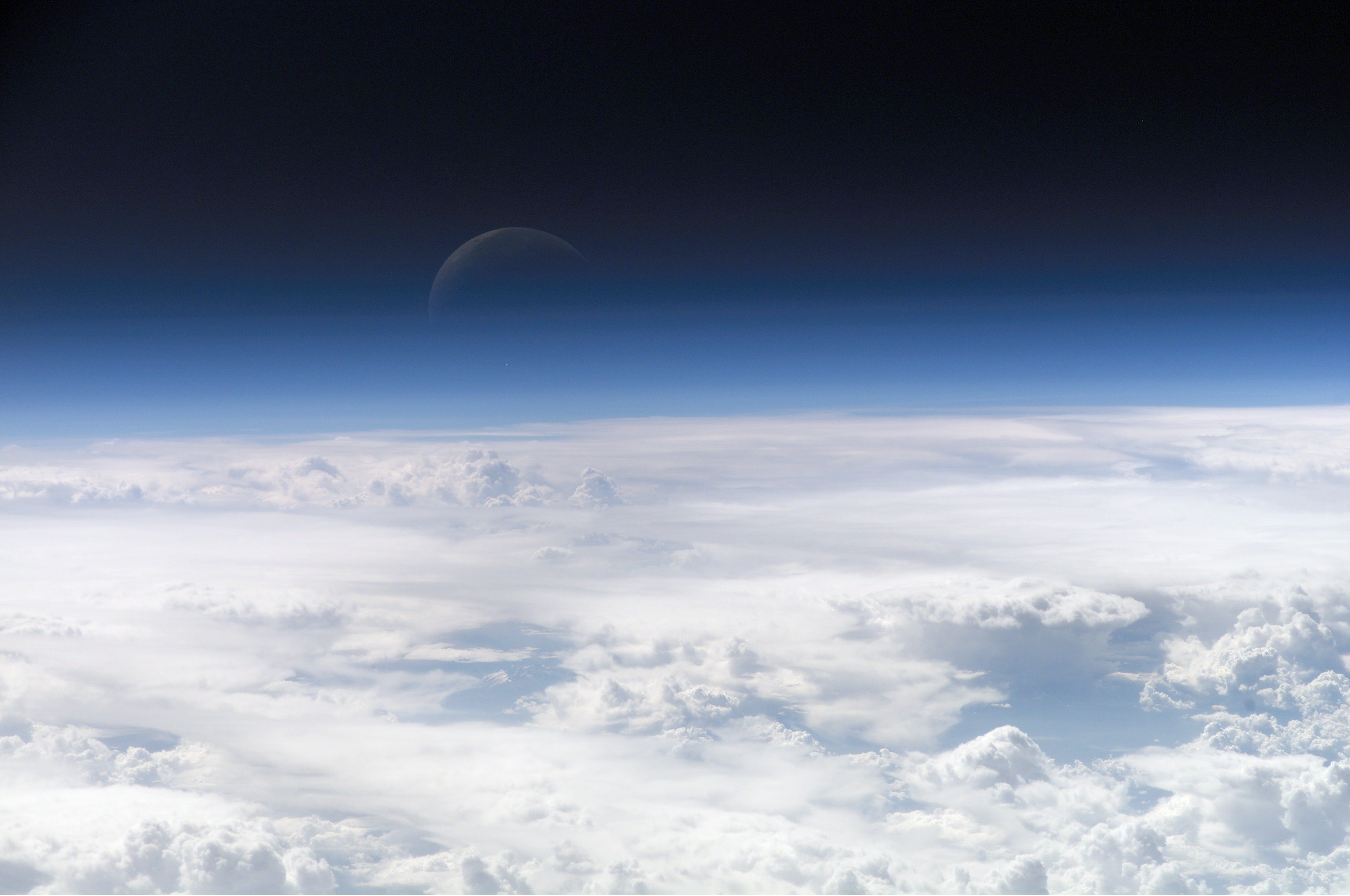 View of the crescent moon through the top of the earth's atmosphere. Photographed above 21.5°N, 113.3°E. by International Space Station crew Expedition 13 over the South China Sea, just south of Macau (NASA image ID: ISS013-E-54329).